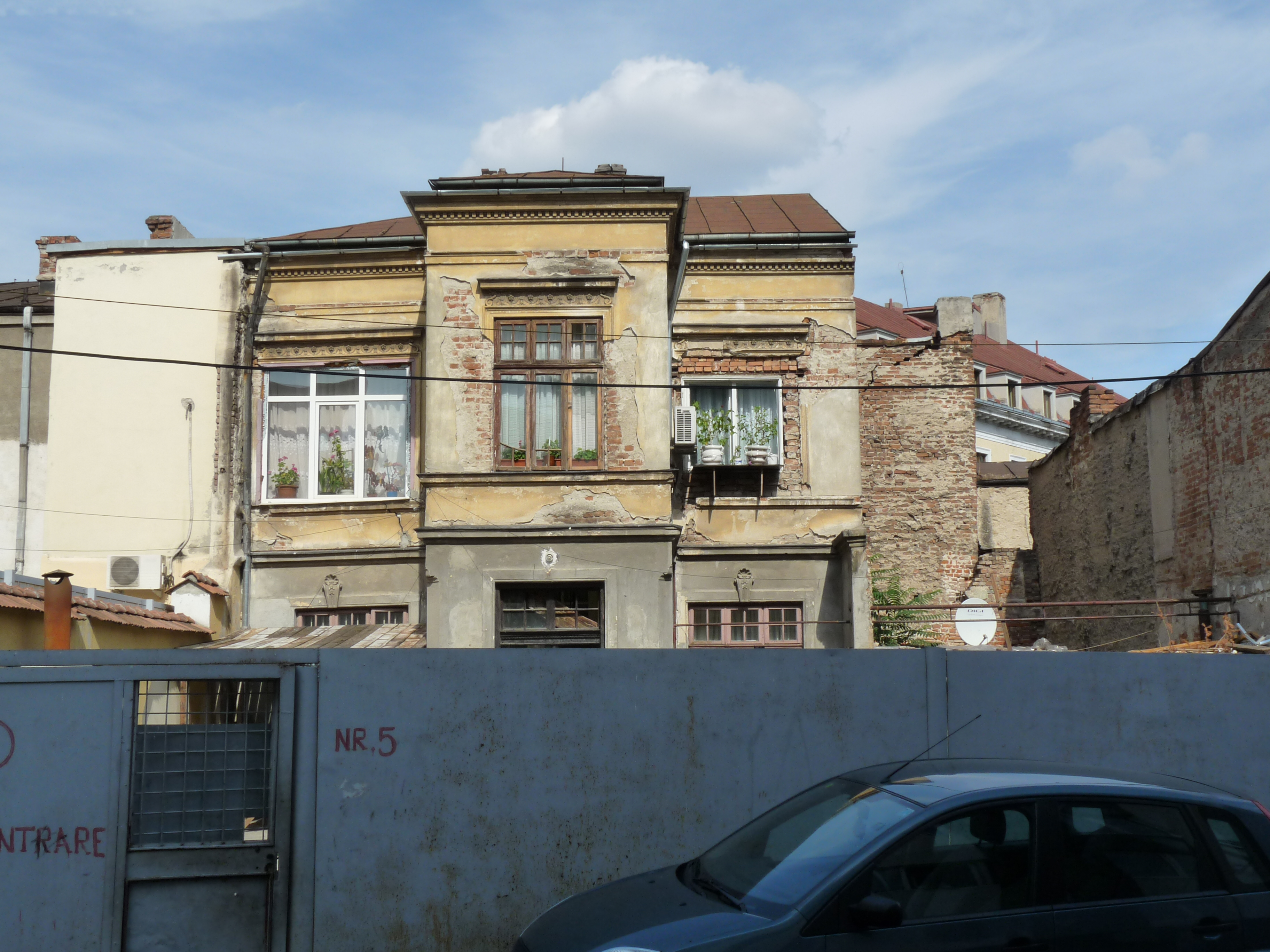 Historic building in Bucharest, Romania, Olteni street 5.